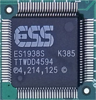 Sound chip ES1938S by ESS Technology